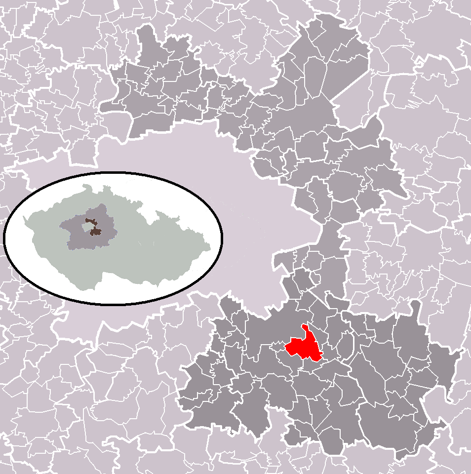 Location of Tehov municipality within Prague-East District and administrative area of Říčany as a Municipality with Extended Competence.